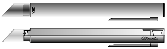 Pocket microscope design.